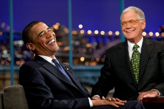 United States President Barack Obama laughs during the taping of his appearance on the "Late Show with David Letterman" in New York on Monday, 21 September 2009.